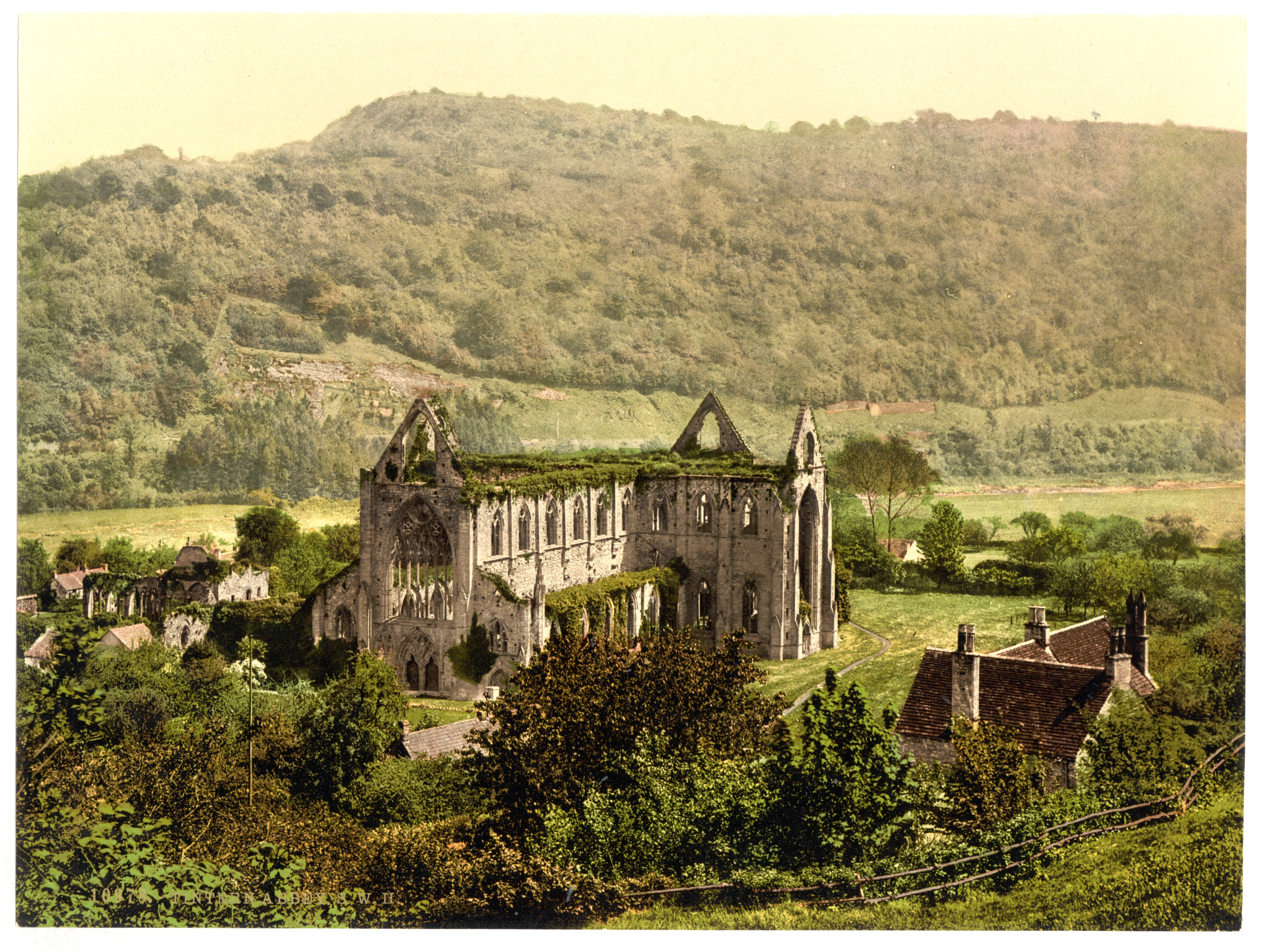 Title from the Detroit Publishing Co., Catalogue J-foreign section, Detroit, Mich. : Detroit Publishing Company, 1905.; Print no. "10978".; Forms part of: Views of England in the Photochrom print collection.